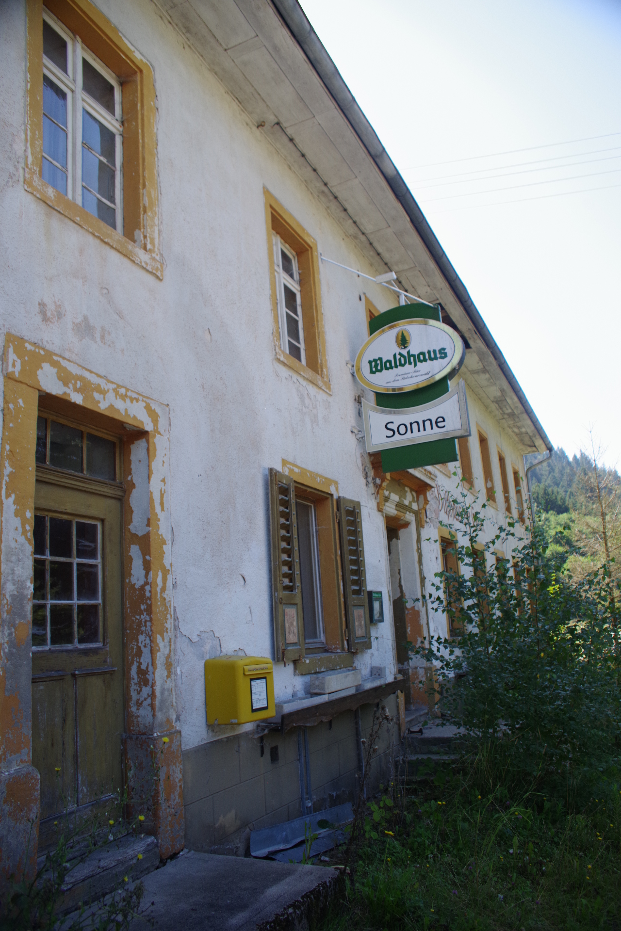 Gasthaus Sonne (Niedermühle)